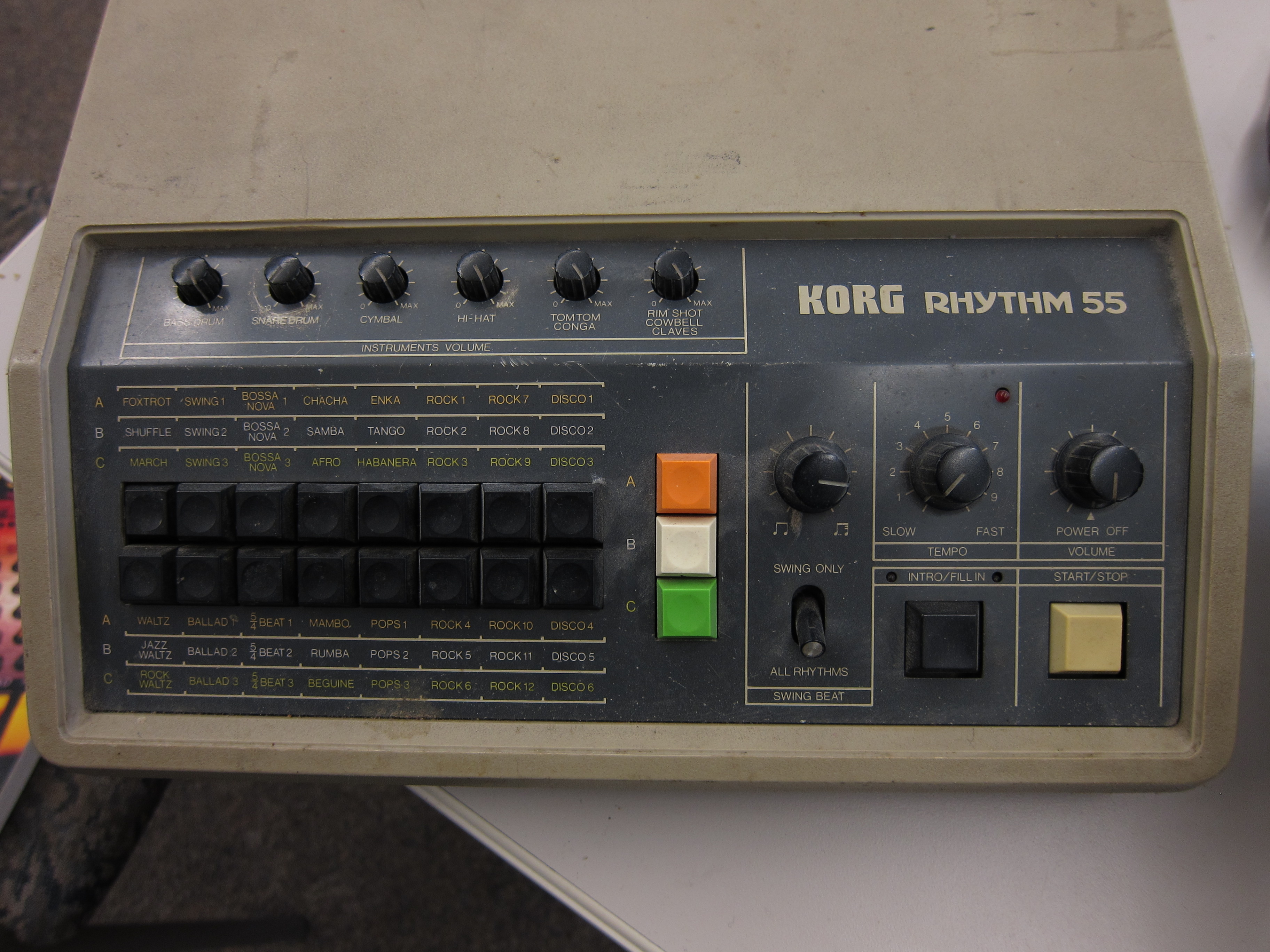 Korg Rhythm 55 (1979) Marc brought in his old analog Korg Delta synth (complete with drum machine attachment). Can't wait to play with it.